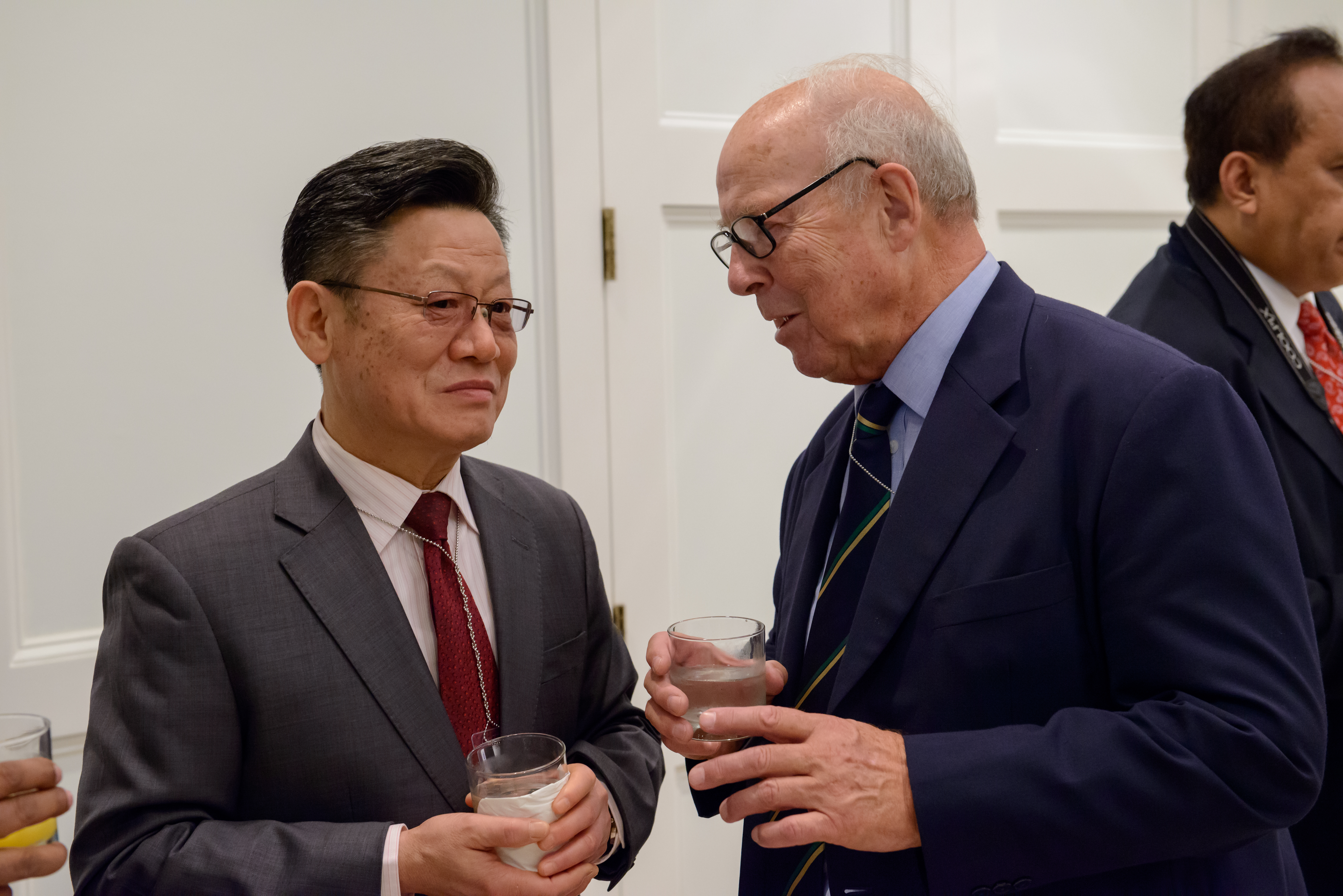 Sha Zukang (left), former UN Under-Secretary General of the Department of Economic and Social Affairs, and Hans Blix, former Director General of the International Atomic Energy Agency